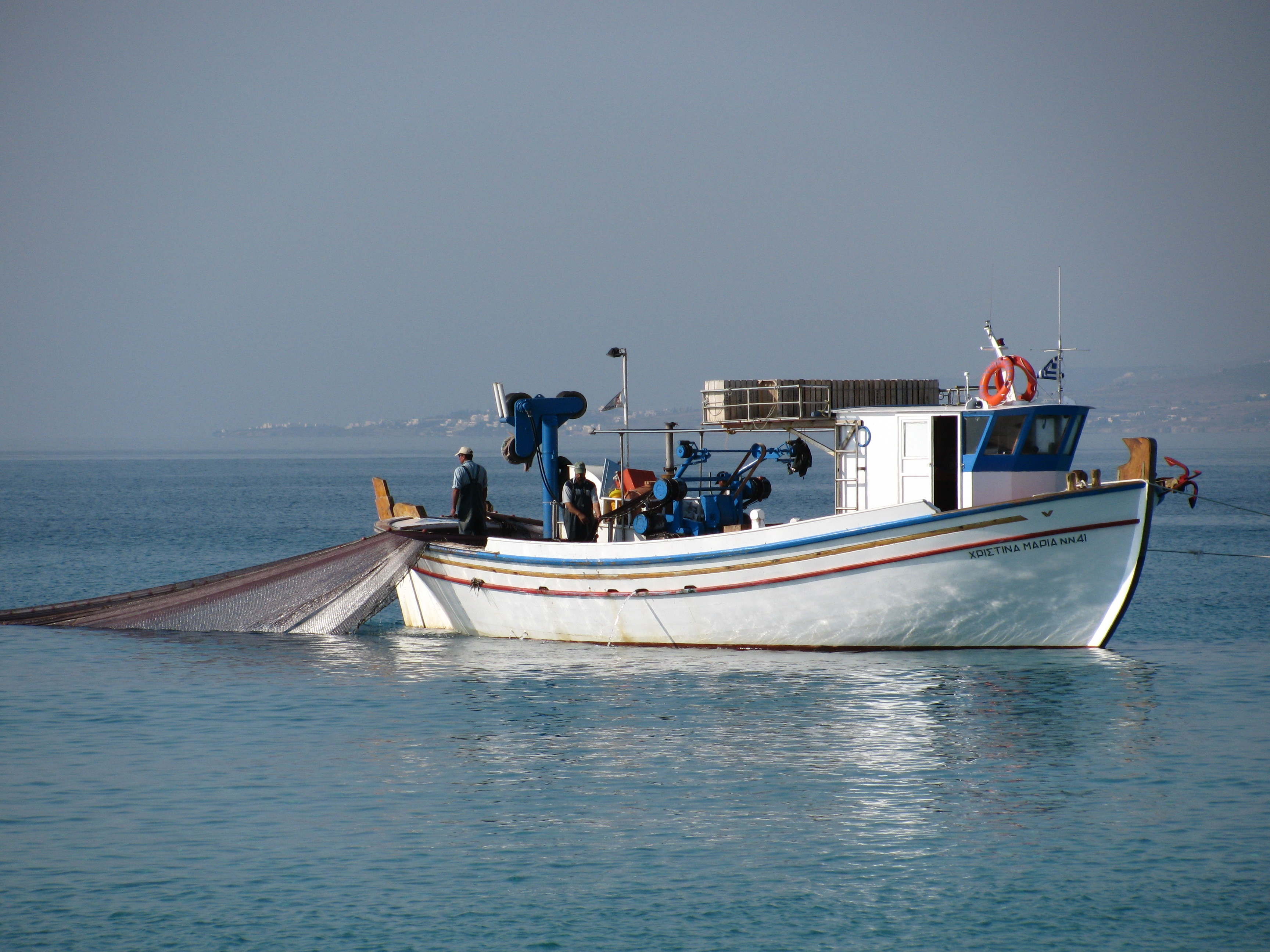 Fishing boat off the coast of Naxos